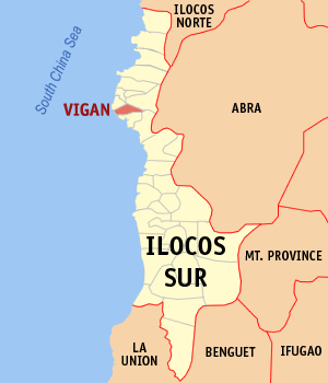 Map of Ilocos Sur showing the location of Vigan